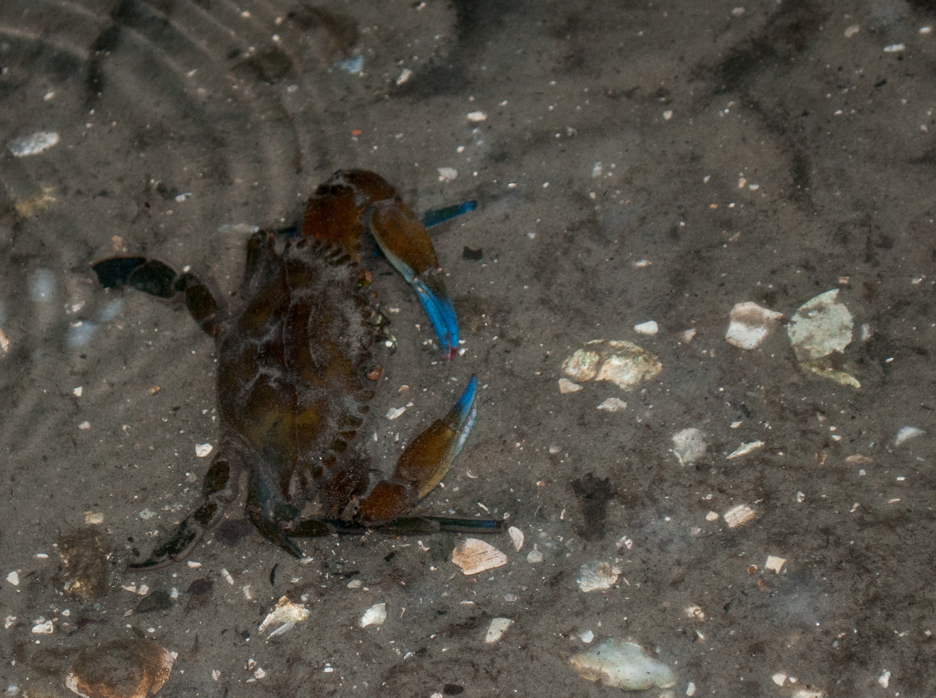 Blue crab claws, common local name in spanish: Jaiba, at La Restinga Lagoon, Margarita island, Venezuela.